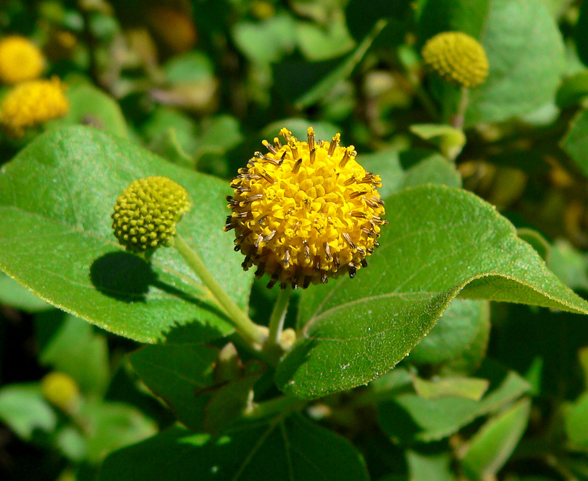 Podanthus ovatifolius at the University of California Botanical Garden, Berkeley, California